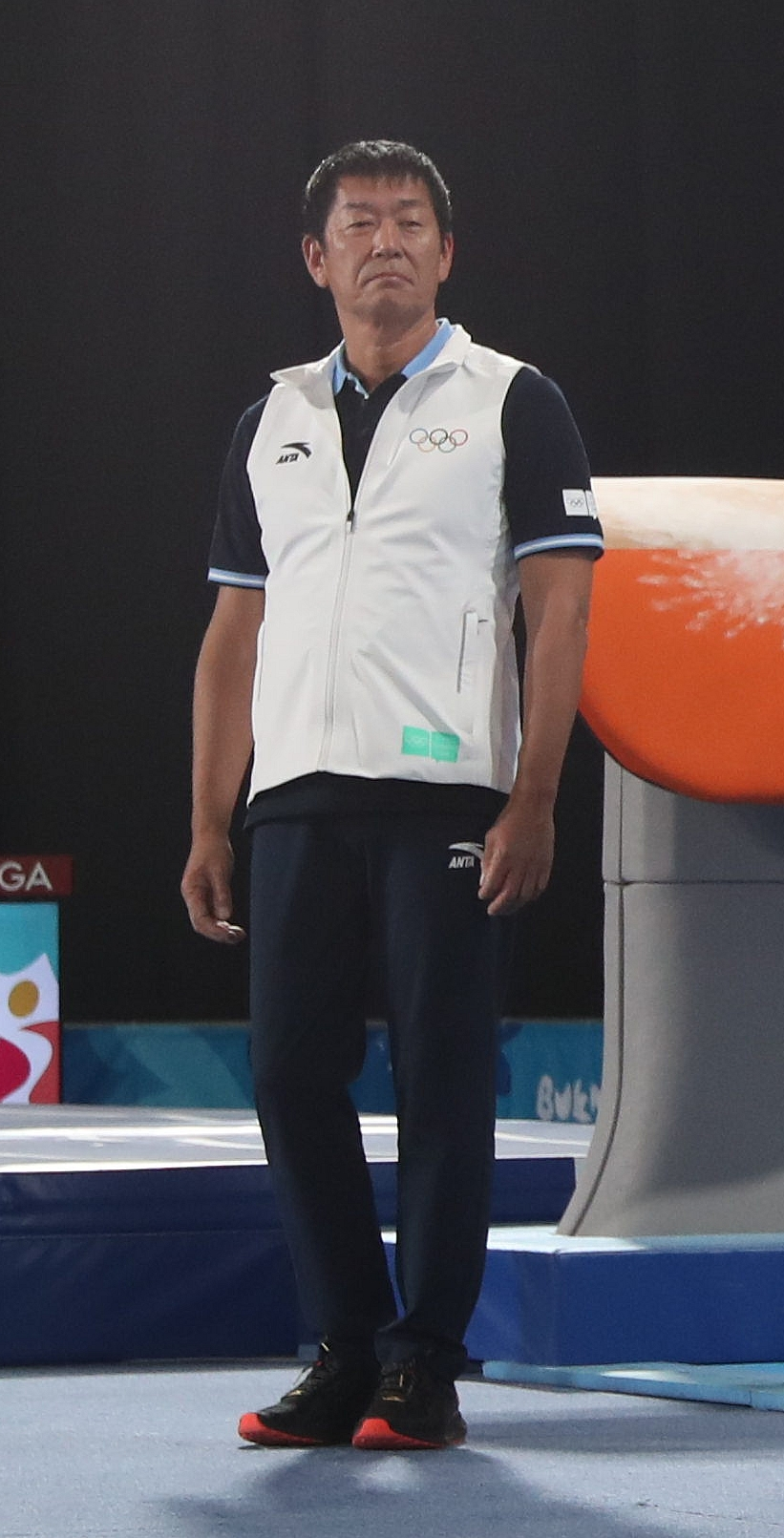 Victory ceremony for the gymnastics mixed multi-discipline team competitio at the 2018 Summer Youth Olympics in Buenos Aires on 10 October 2018.